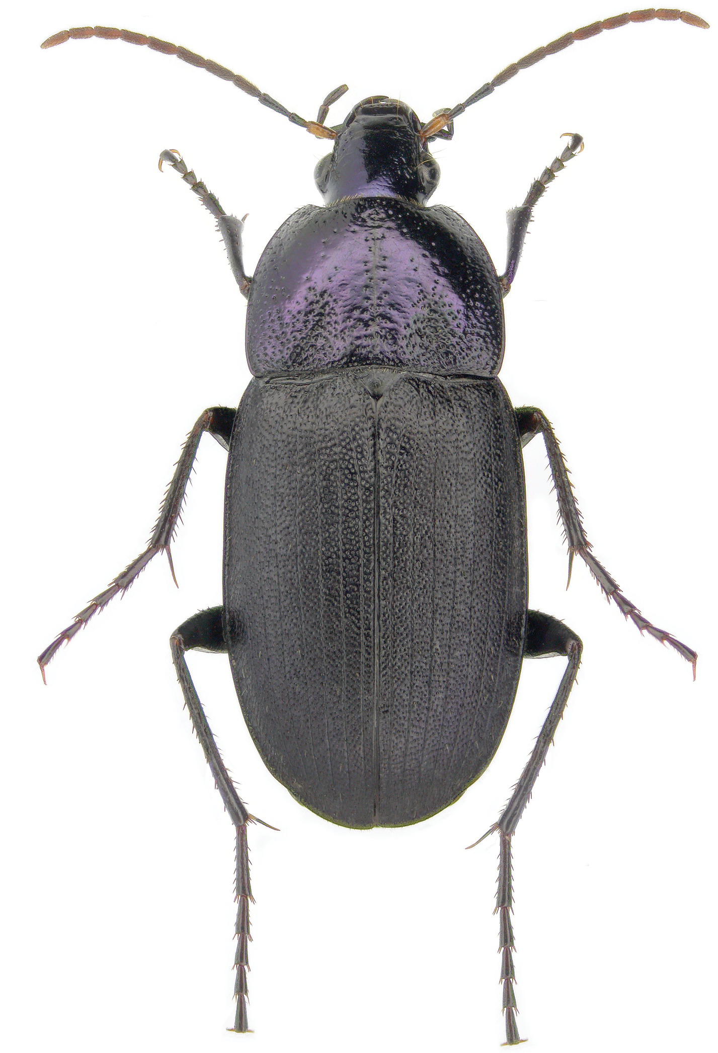 Chlaenius purpuricollis Randall. This relatively small chlaeniine had been rarely collected until pitfall trapping showed that it is common in alvars, which are flat, relatively open grassy areas with shallow or sporadic soil cover over calcareous bedrock. Alvars are known from Sweden, Estonia, New York, Michigan, Ohio, and particularly central Canada. The chlaeniine is also found in similar habitats in other parts of North America.